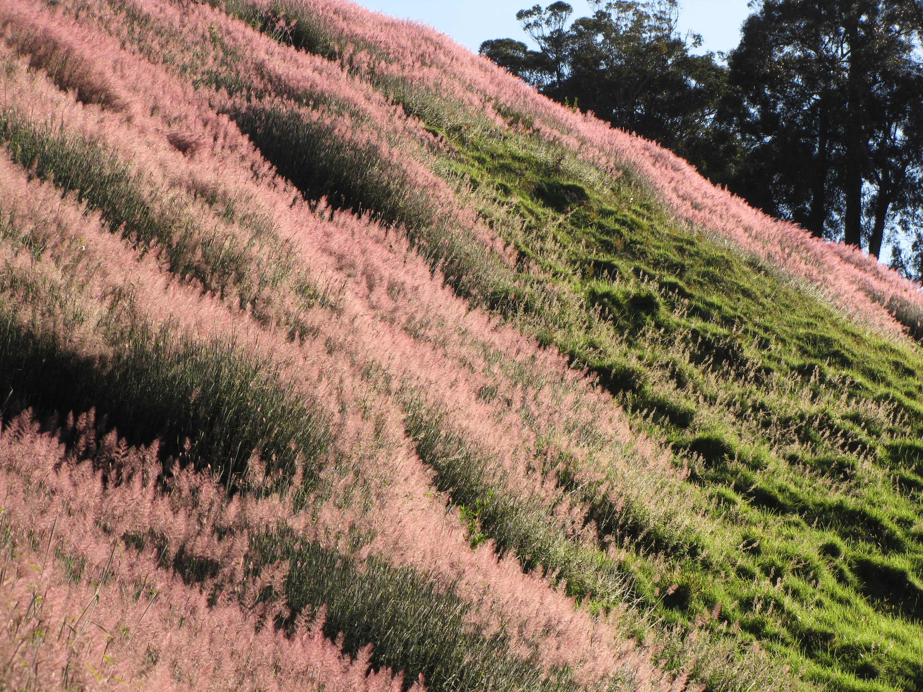 Melinis minutiflora (Molasses grass) Red flowers at Hawea Pl Olinda, Maui, Hawaii. December 07, 2011 #111207-1622 Image Use Policy